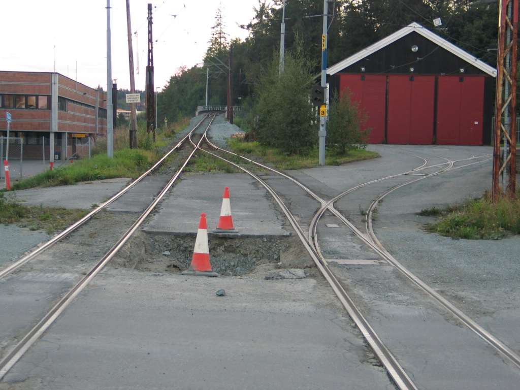 Tram in Trondheim, view of the Munkvoll station